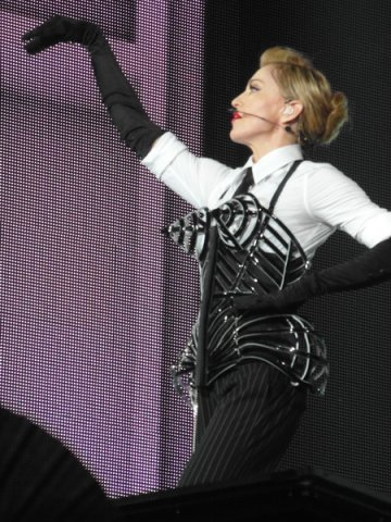 Madonna concert in Barcelona